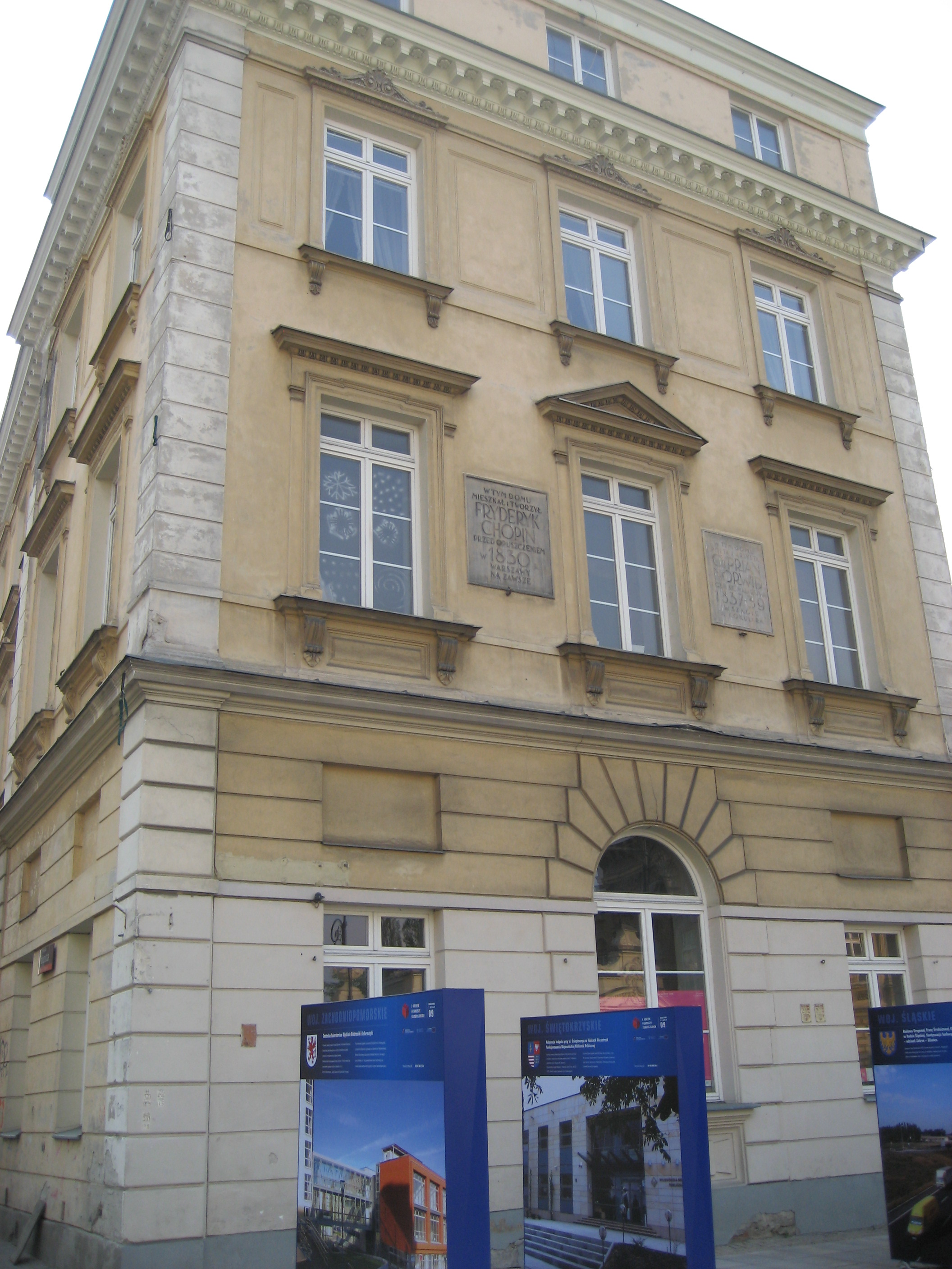 South annex of the Krasinski, or Czapski, Palace, at Krakowskie Przedmiescie 5, Warsaw, Poland. Frederic Chopin lived and composed here before leaving Poland forever in 1830. Poet and artist Cyprian Norwid studied painting here in 1837-39.